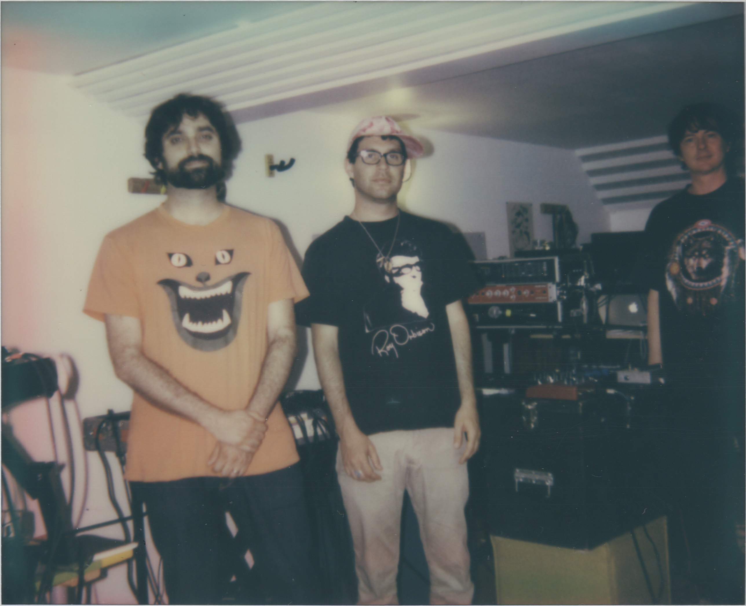 Animal Collective at Drop of Sun Studios in Asheville, NC doing pre-production for Painting With.